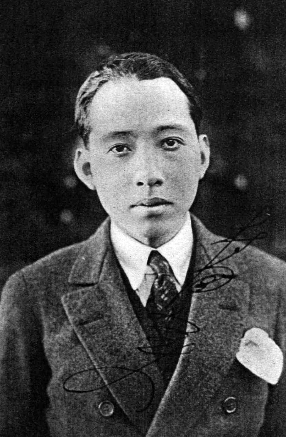 Photograph of the film director Minoru Murata